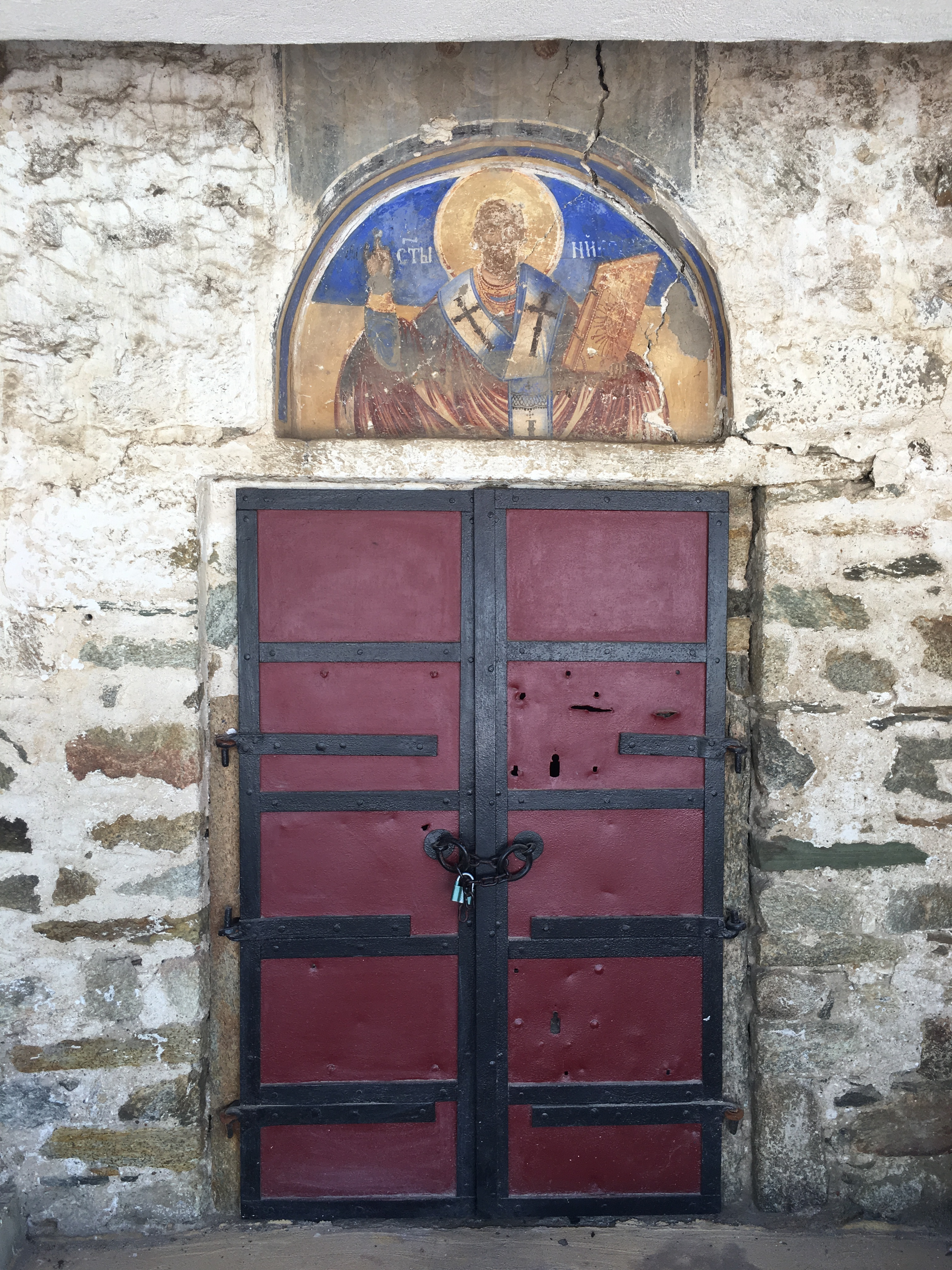 The main entrance of St. Nicholas Church in the village of Trn